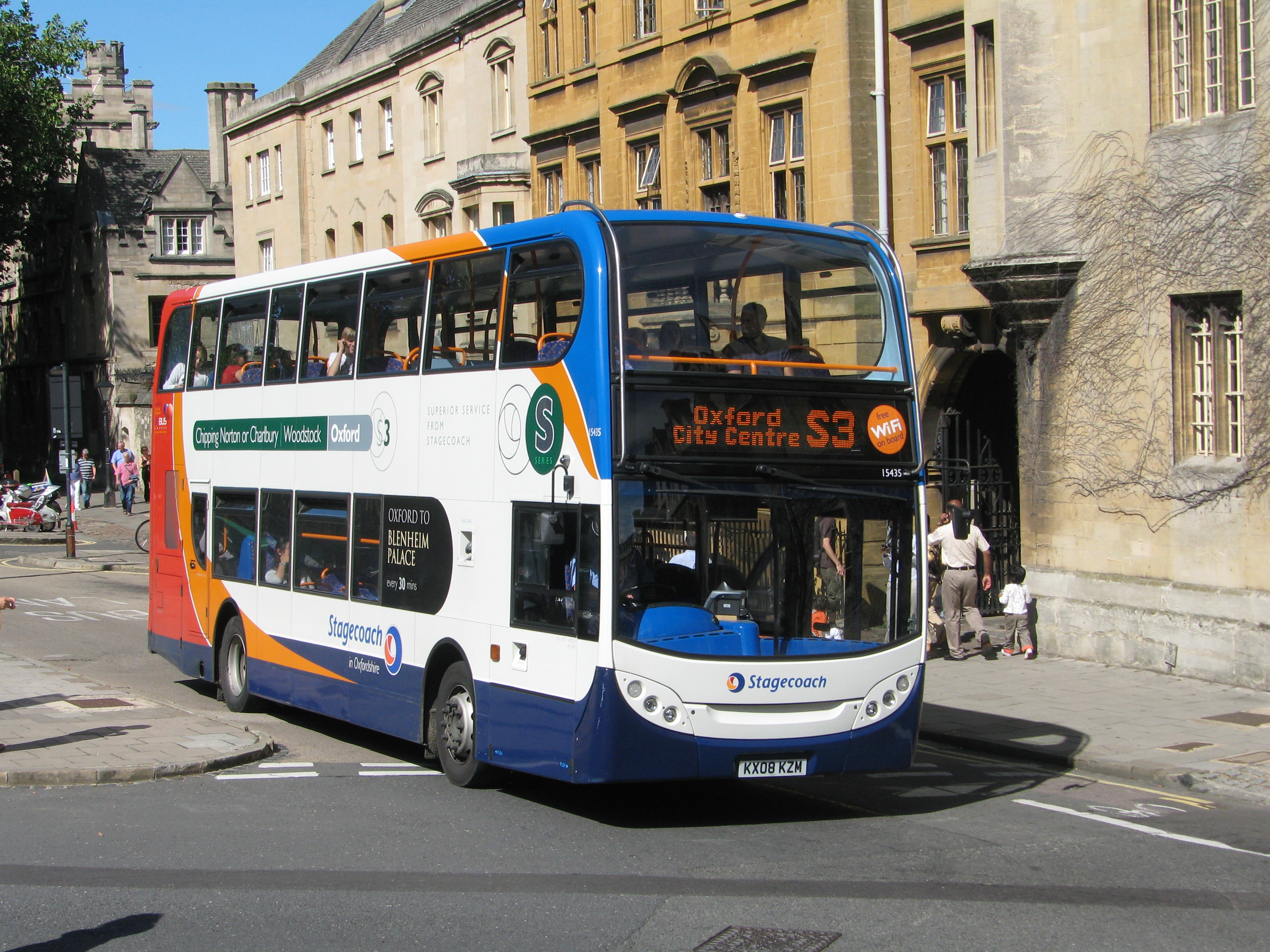 A Stagecoach in Oxfordshire bus on route S3 outside Balliol College, Oxford, at the junction of St Giles' Street and Magdalen Street. It is a Scania N230UD with an Alexander Dennis Enviro400 body, fleet number 15435, registration mark KX08 KZM.